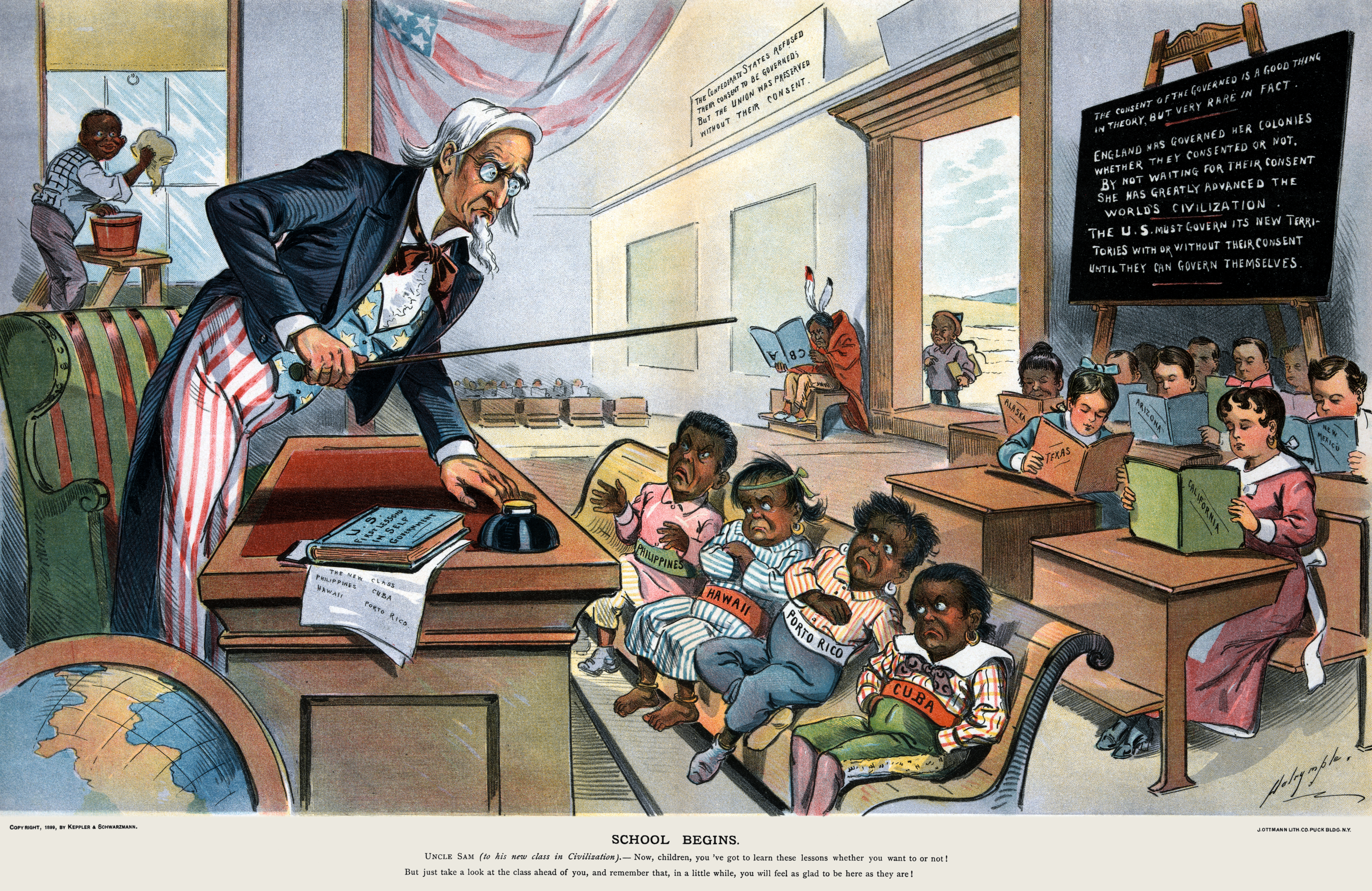 Caricature showing Uncle Sam lecturing four children labelled Philippines (who appears similar to Philippine leader Emilio Aguinaldo), Hawaii, Porto[sic] Rico and Cuba in front of children holding books labelled with various U.S. states. In the background are an American Indian holding a book upside down, a Chinese boy at the door and a black boy cleaning a window. Originally published on p. 8-9 of the January 25, 1899, issue of Puck magazine. Caption: School Begins. Uncle Sam (to his new class in Civilization). Now, children, you've got to learn these lessons whether you want to or not! But just take a look at the class ahead of you, and remember that, in a little while, you will feel as glad to be here as they are! Blackboard: The consent of the governed is a good thing in theory, but very rare in fact. — England has governed her colonies whether they consented or not. By not waiting for their consent she has greatly advanced the world's civilization. — The U.S. must govern its new territories with or without their consent until they can govern themselves. Poster: The Confederated States refused their consent to be governed; But the Union was preserved without their consent. Book: U.S. — First Lessons in Self Government Note (on table): The new class — Philippines Cuba Hawaii Porto Rico Small caption (left): Copyright, 1899, by Keppler & Schwarzmann. Small caption (right): J. Ottmann Lith. Co. Puck Bldg. N.Y.